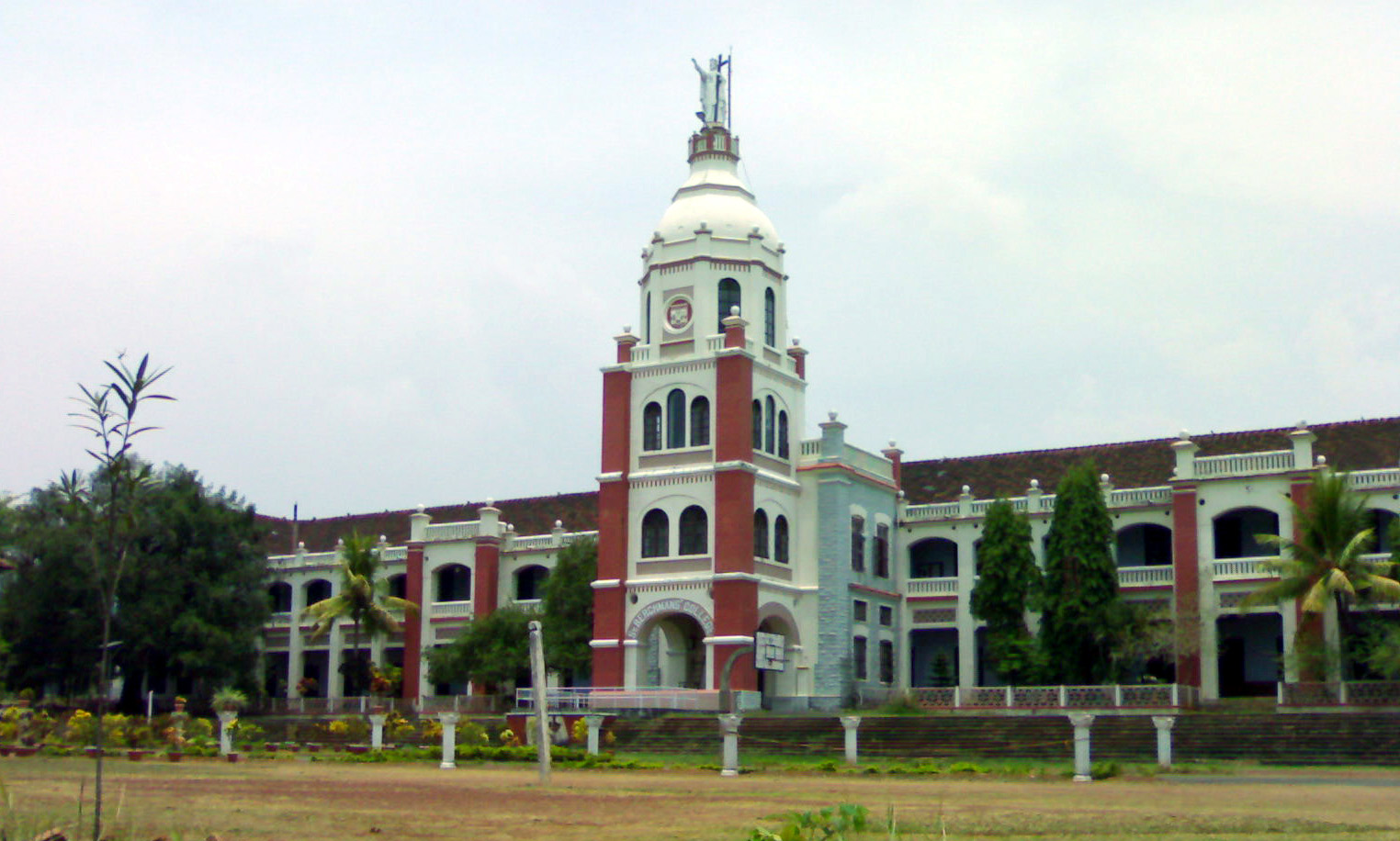 S.B College Changanacherry